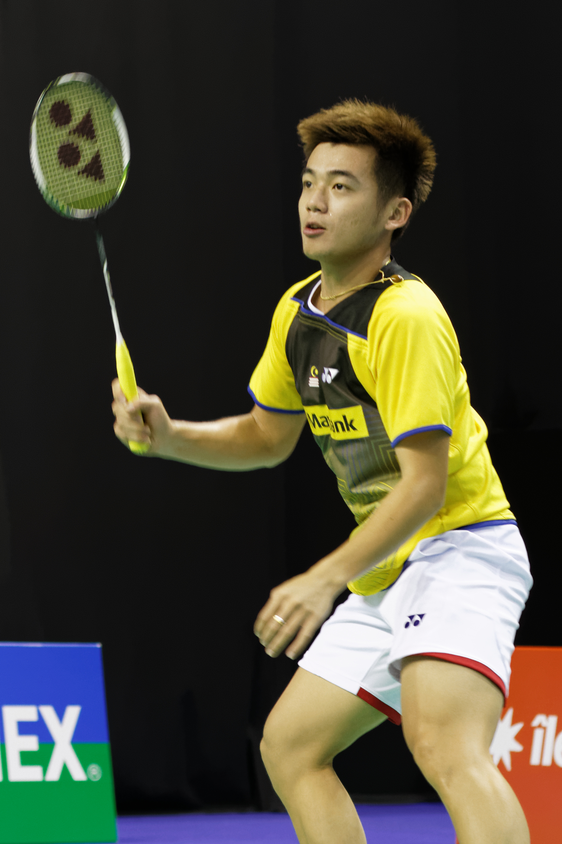 2013 French open. Men's doubles quarterfinal. Hoon Thien How and Tan Wee Kiong vs Lee Yong-dae and Yoo Yeon-seong.